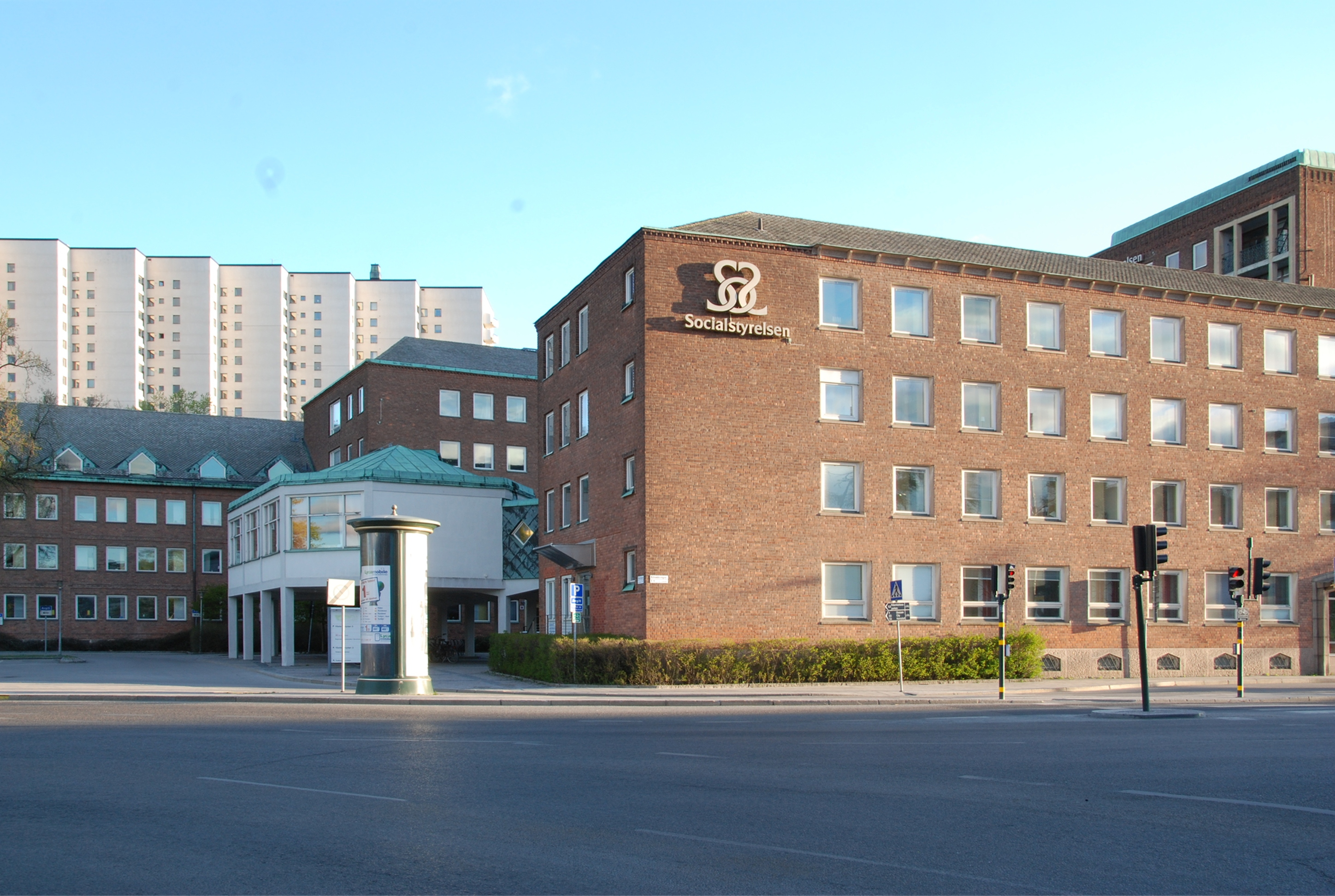 Västerbroplan, april 2011.